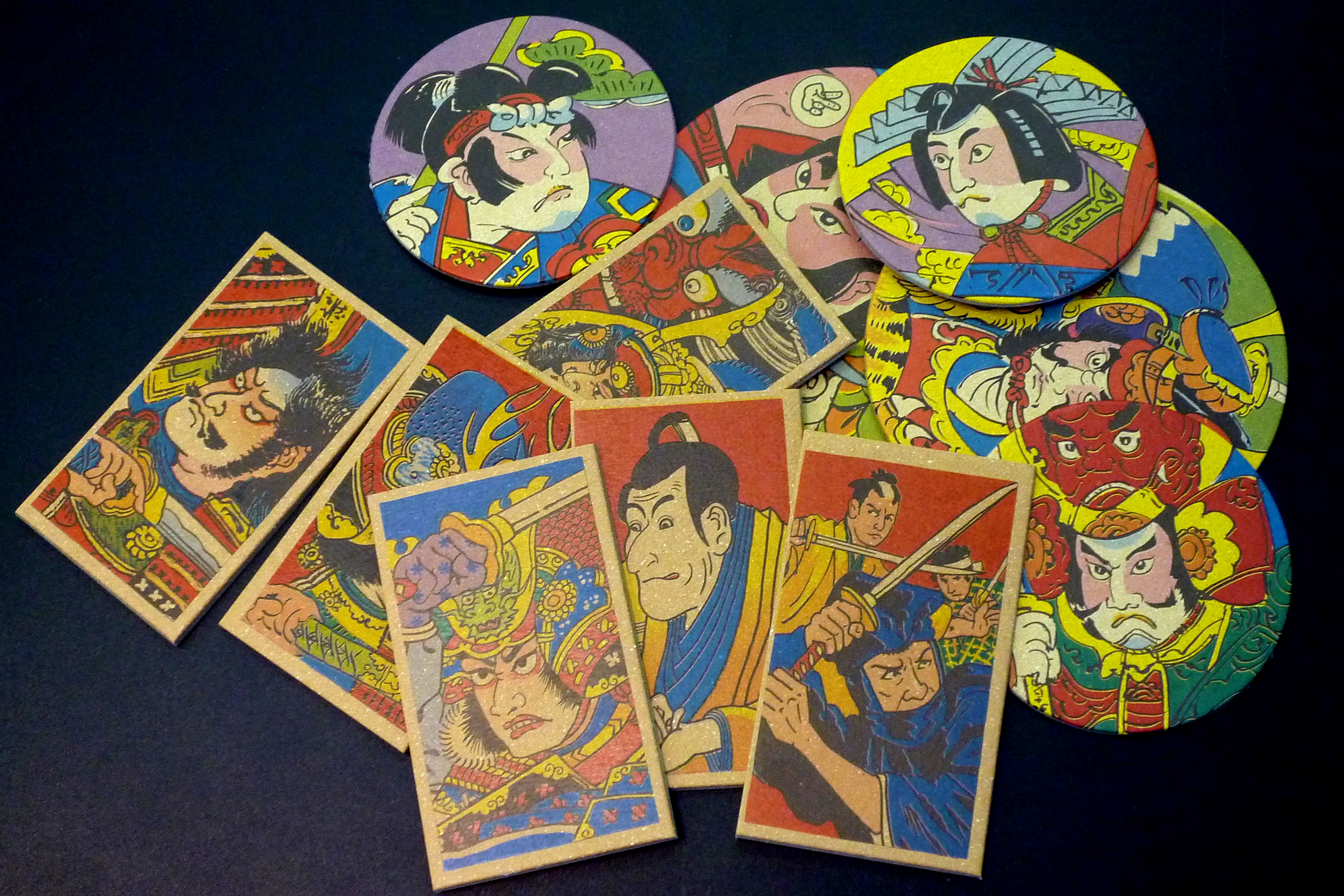 Menko (Japanese style pogs)